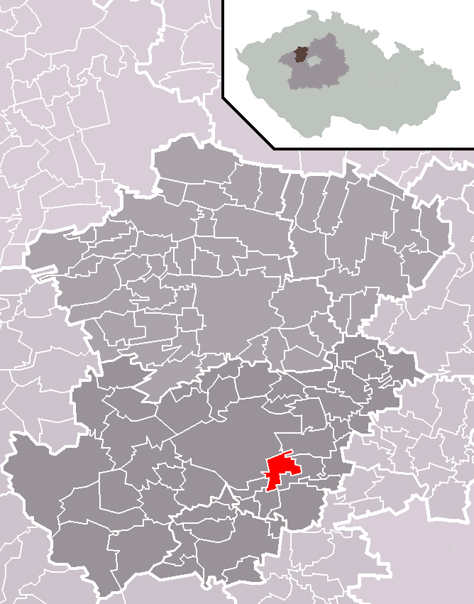 Location of Hřebeč municipality within Kladno District and administrative area of Kladno as a Municipality with Extended Competence.